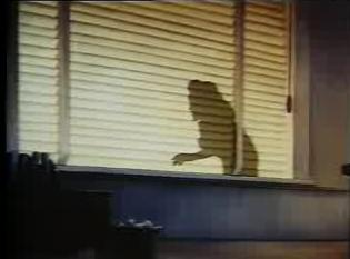 Still taken from the animated short "Destruction, Inc."